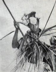 Simba rebel wearing animal skins and traditional costume bewitched by "sorcerers" to protect him from harm in battle